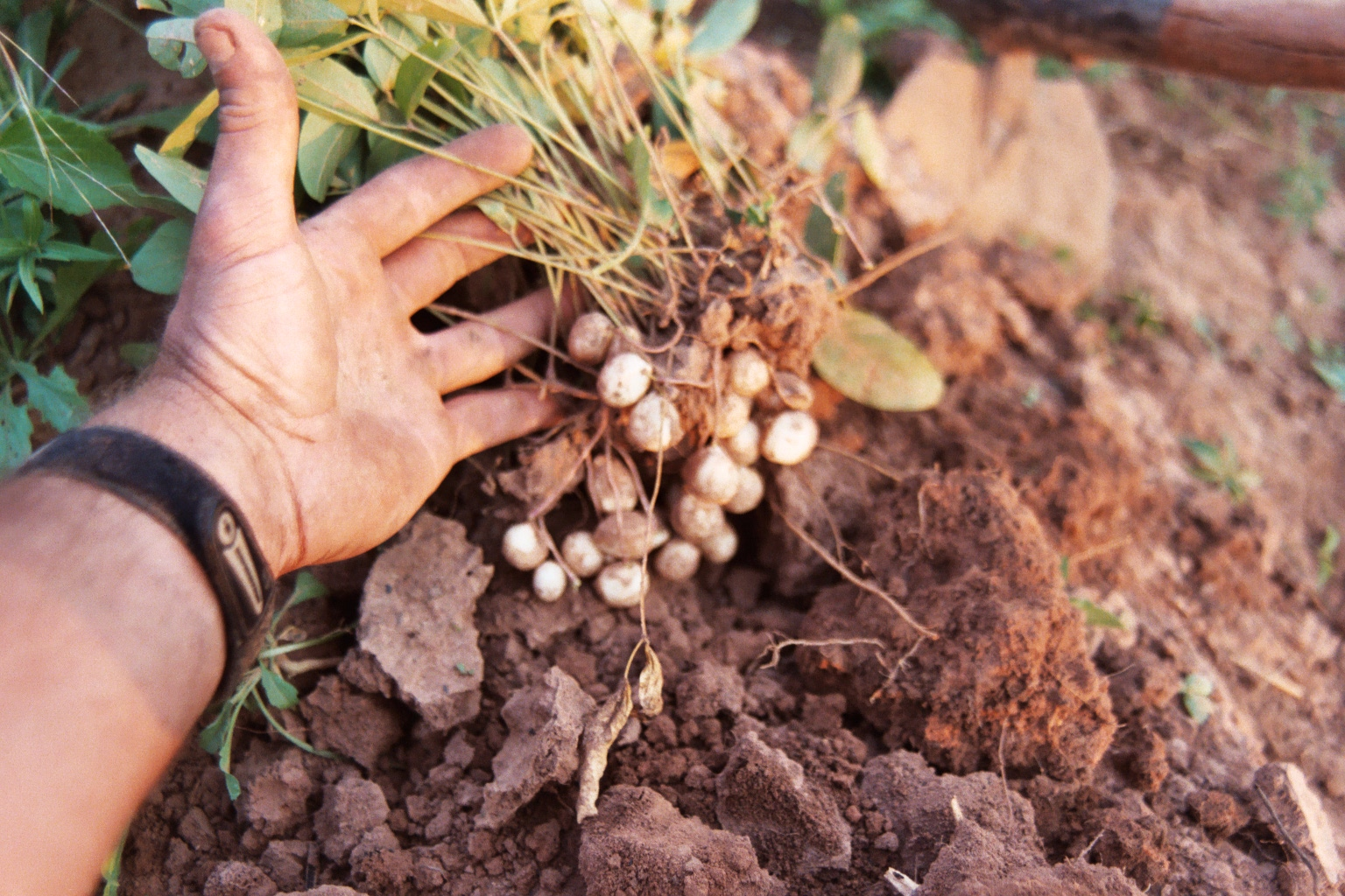 View of just-harvested bambara nut (Vigna subterranea) in field, Kelongwa Village, Kasempa District, Northwestern Province, Zambia.